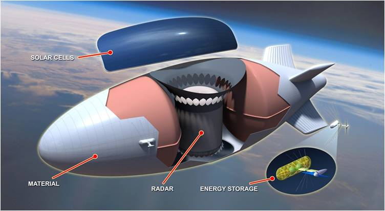 Design of project Integrated Sensor is Structure (ISIS) airship.